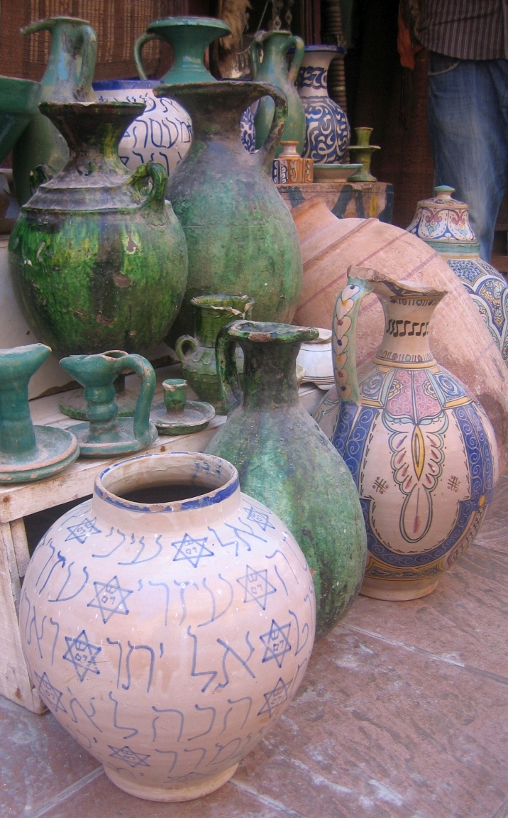 Jewish art and handicraft at a bazaar in the city of Essaouia, Morocco